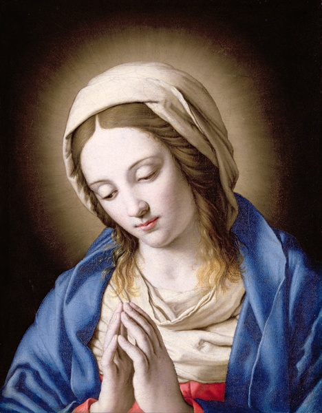 The Madonna Praying